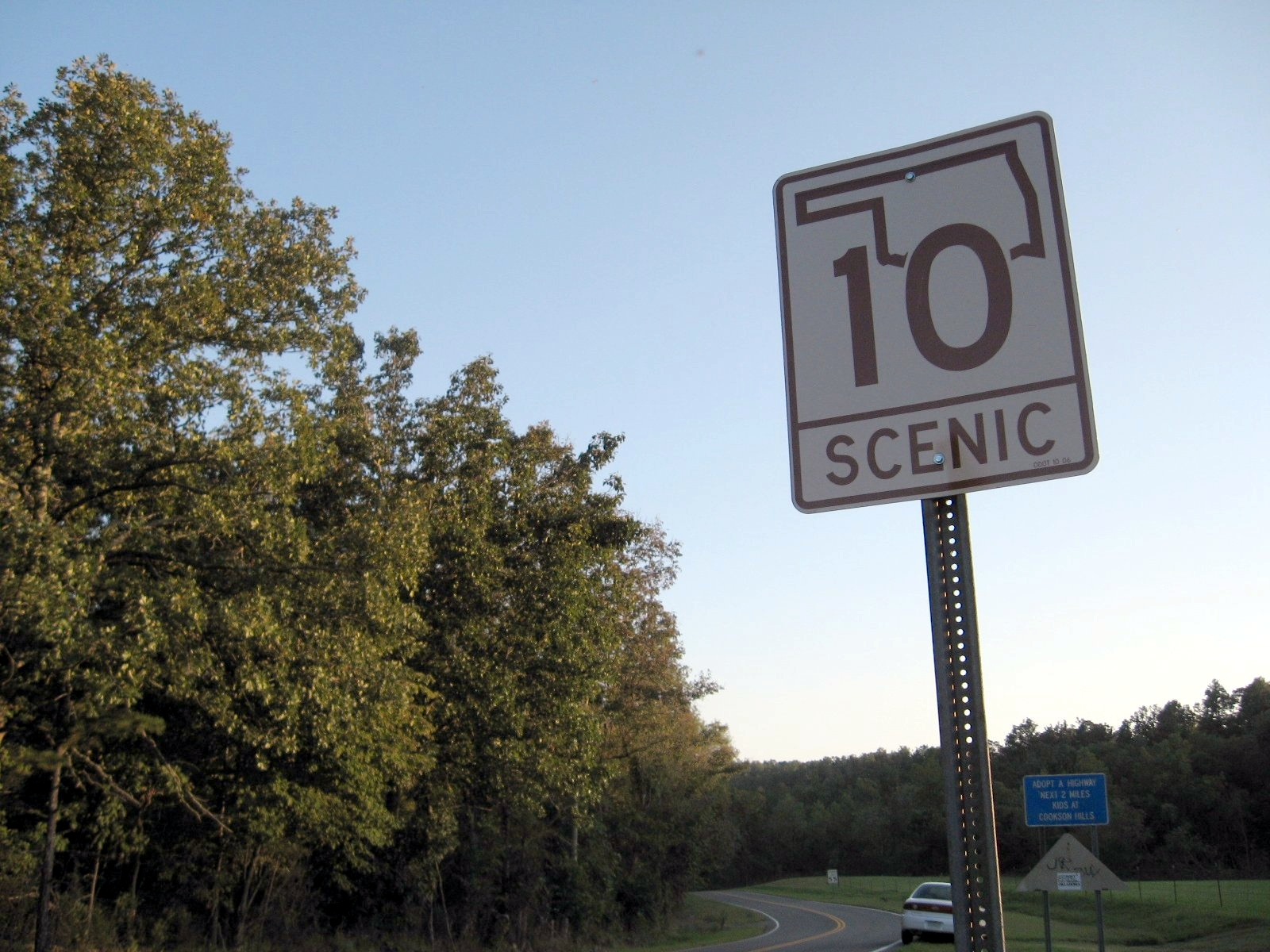 OK-10 Scenic signage in Adair County, Oklahoma, just south of the Adair/Delaware county line.